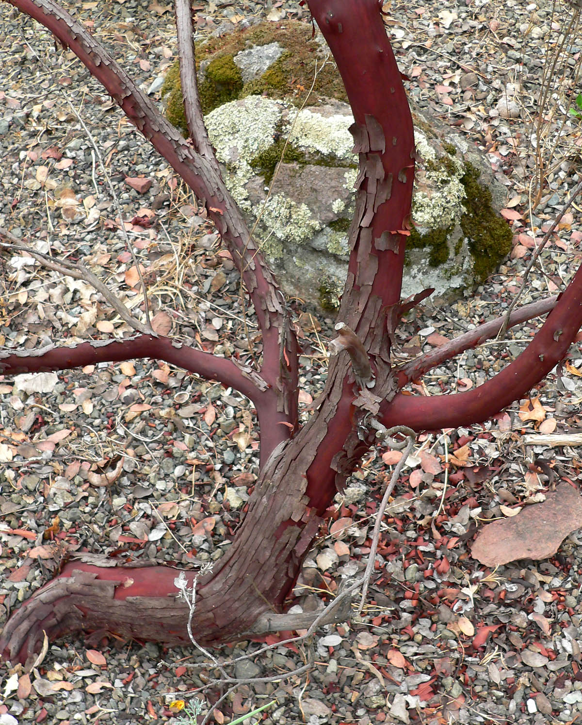 Photo of Arctostaphylos otayensis at Regional Parks Botanic Garden